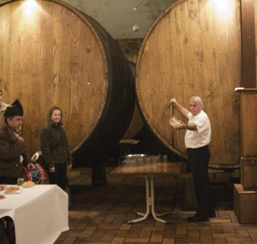 In the north of Spain, sidra is the drink of choice. This is where they make it.